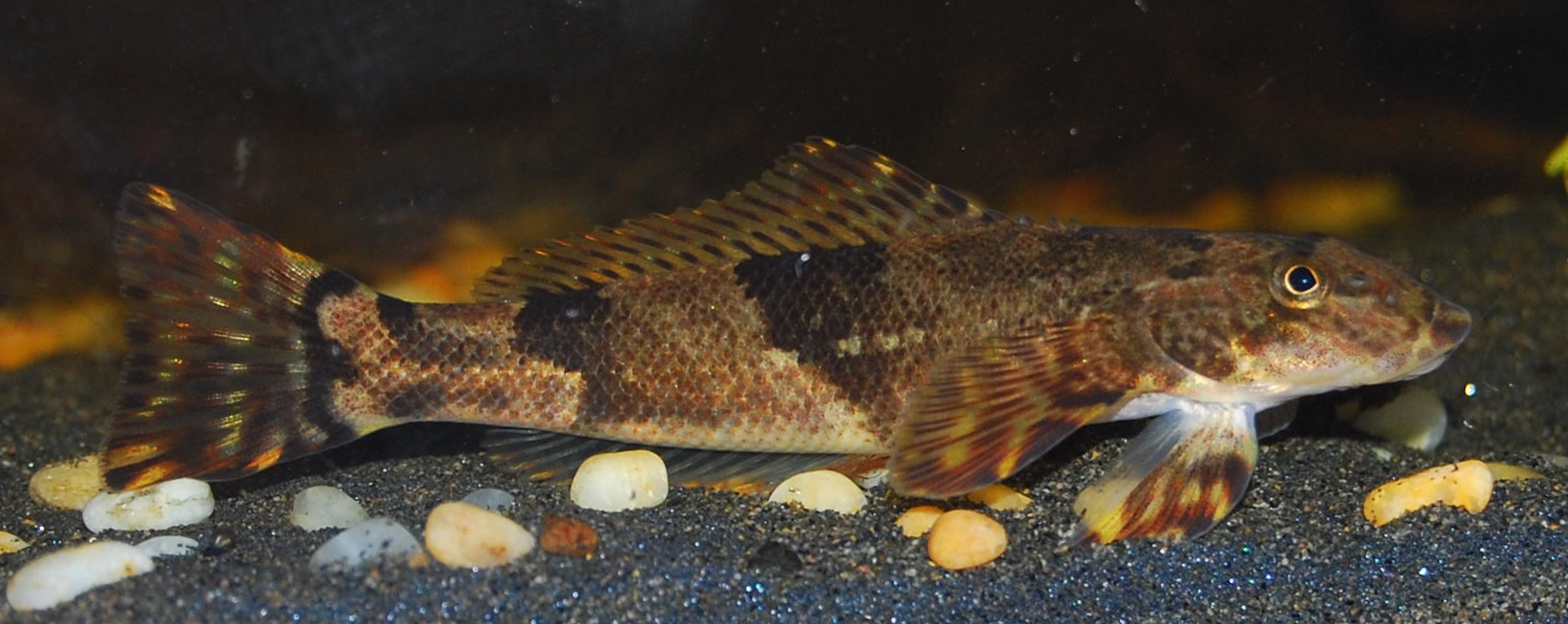 Torrentfish, Cheimarrichthys fosteri